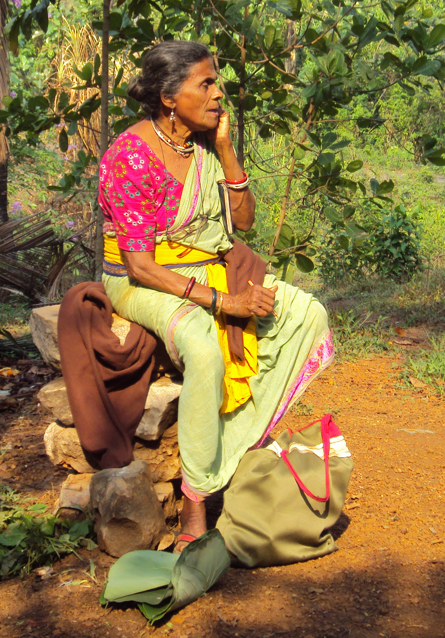 Daya Bai